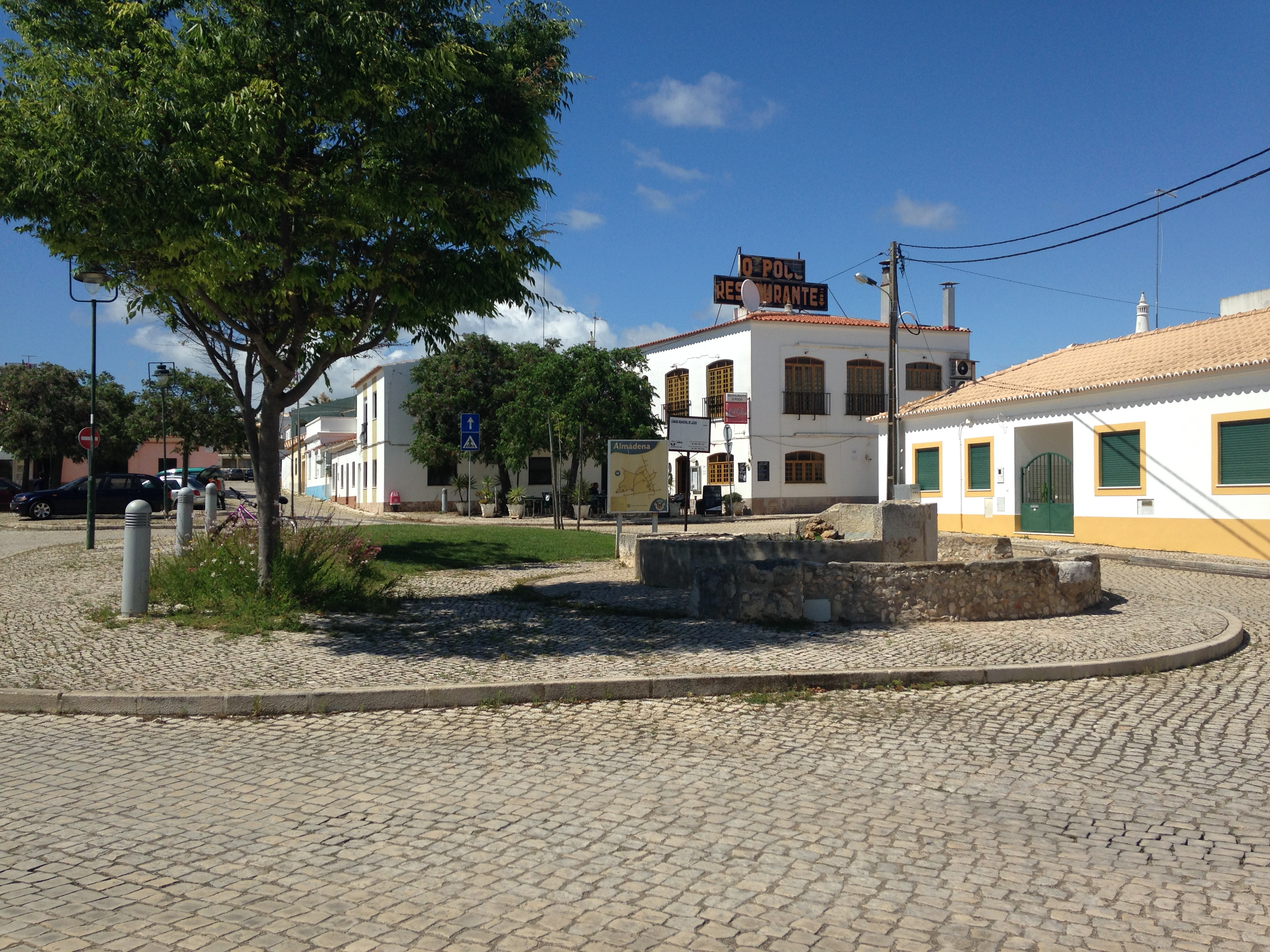 O Largo do Poço, the village square in Almadena, Algarve, Portugal